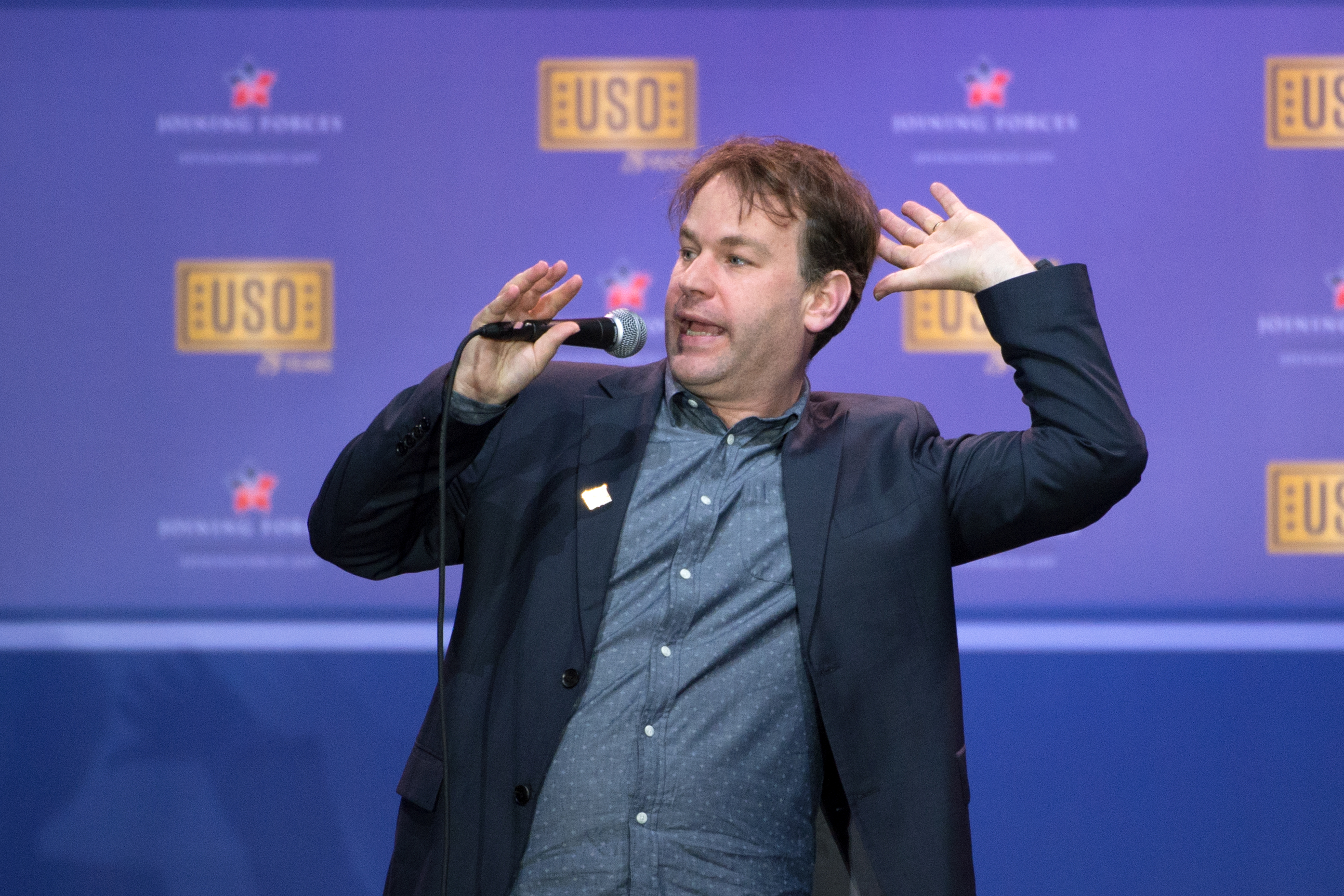 Comedian Mike Birbiglia performs during the comedy show in celebration of the 75th anniversary of the USO and the 5th anniversary of Joining Forces at Joint Base Andrews in Washington, D.C. May 5, 2016. Joining Forces is an initiative to help military, veterans and their families founded by Dr. Jill Biden and First Lady Michelle Obama. (DoD News photo by EJ Hersom)